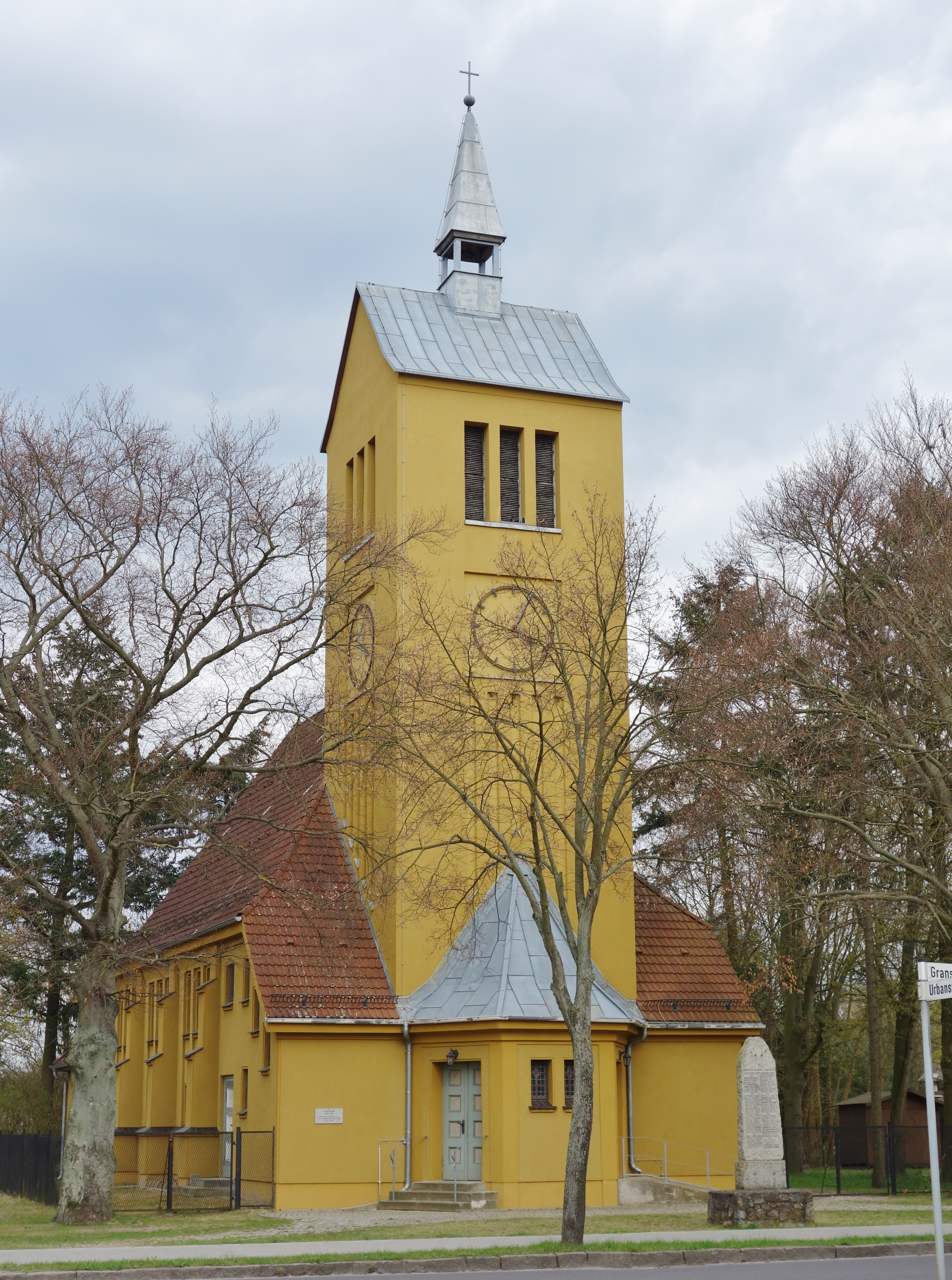 Western view of church in Sachsenhausen, Oranienburg municipality, Oberhavel district, Brandenburg state, Germany